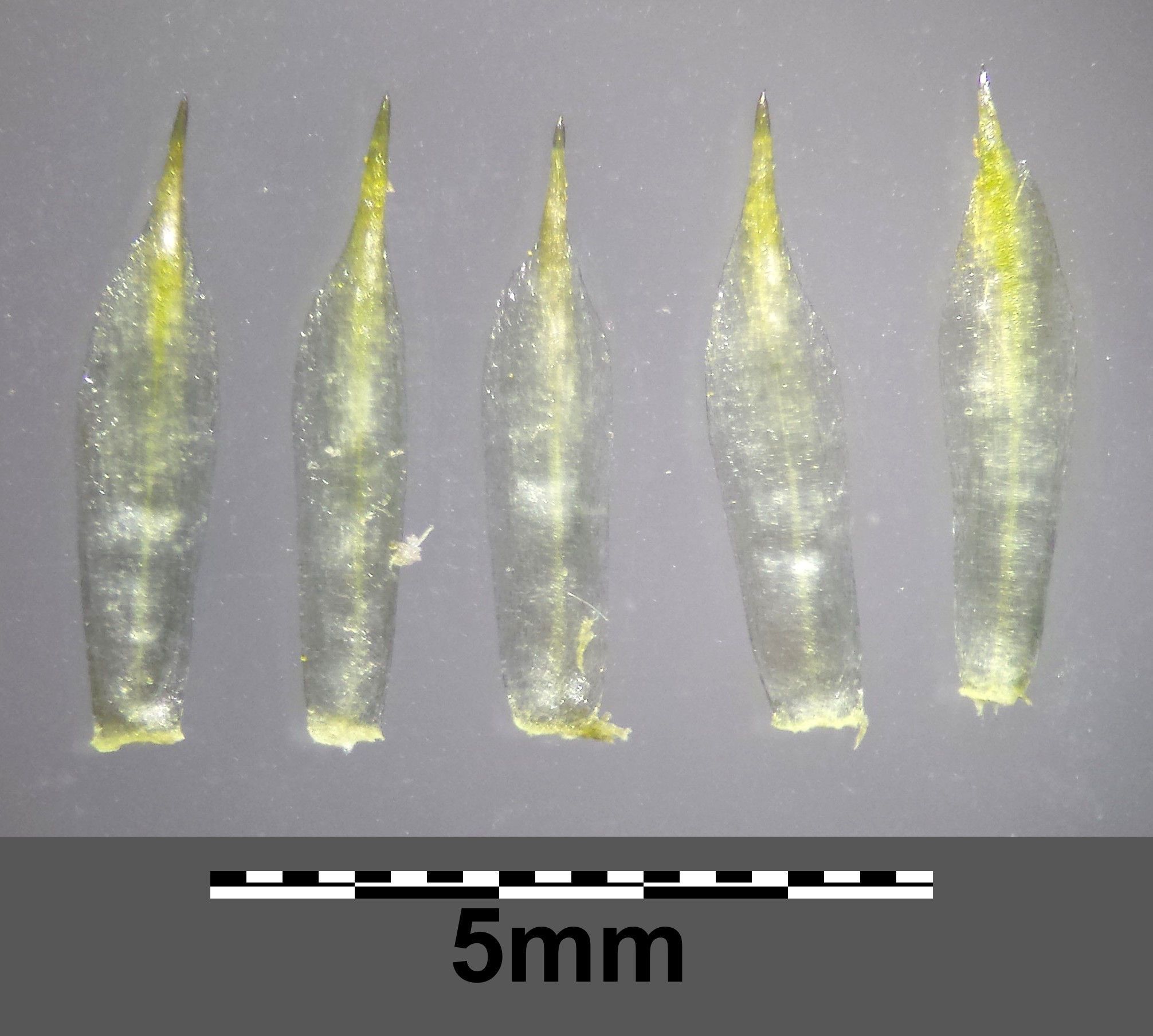 Bracts Taxonym: Anthemis austriaca ss Fischer et al. EfÖLS 2008 ISBN 978-3-85474-187-9 Location: near Steinberg near Niederhollabrunn, district Korneuburg, Lower Austria - ca. 300 m a.s.l. Habitat: border of a field